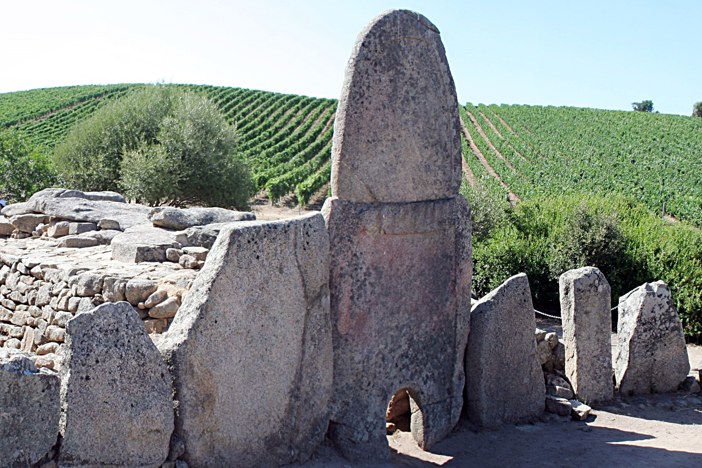 Giants' grave at Coddu Vecchiu (Sardegna)